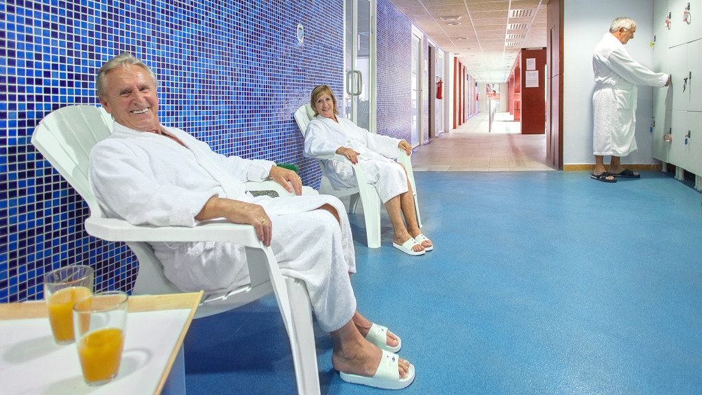 Patients in a Thermal Medicine Centre